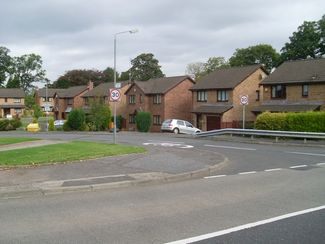 Burnside Road, High Burnside